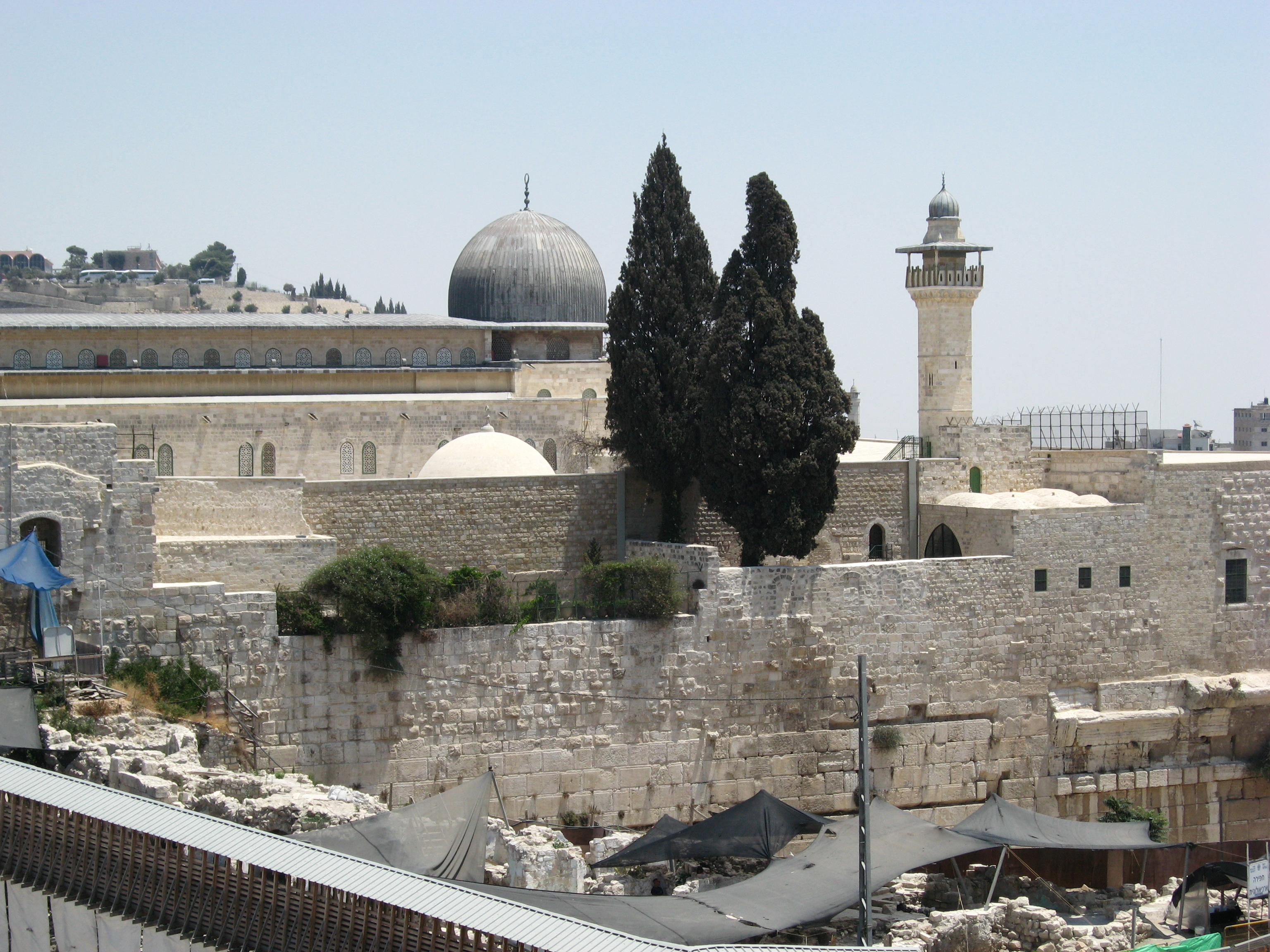 Close-up of the Al-Aqsa Mosque